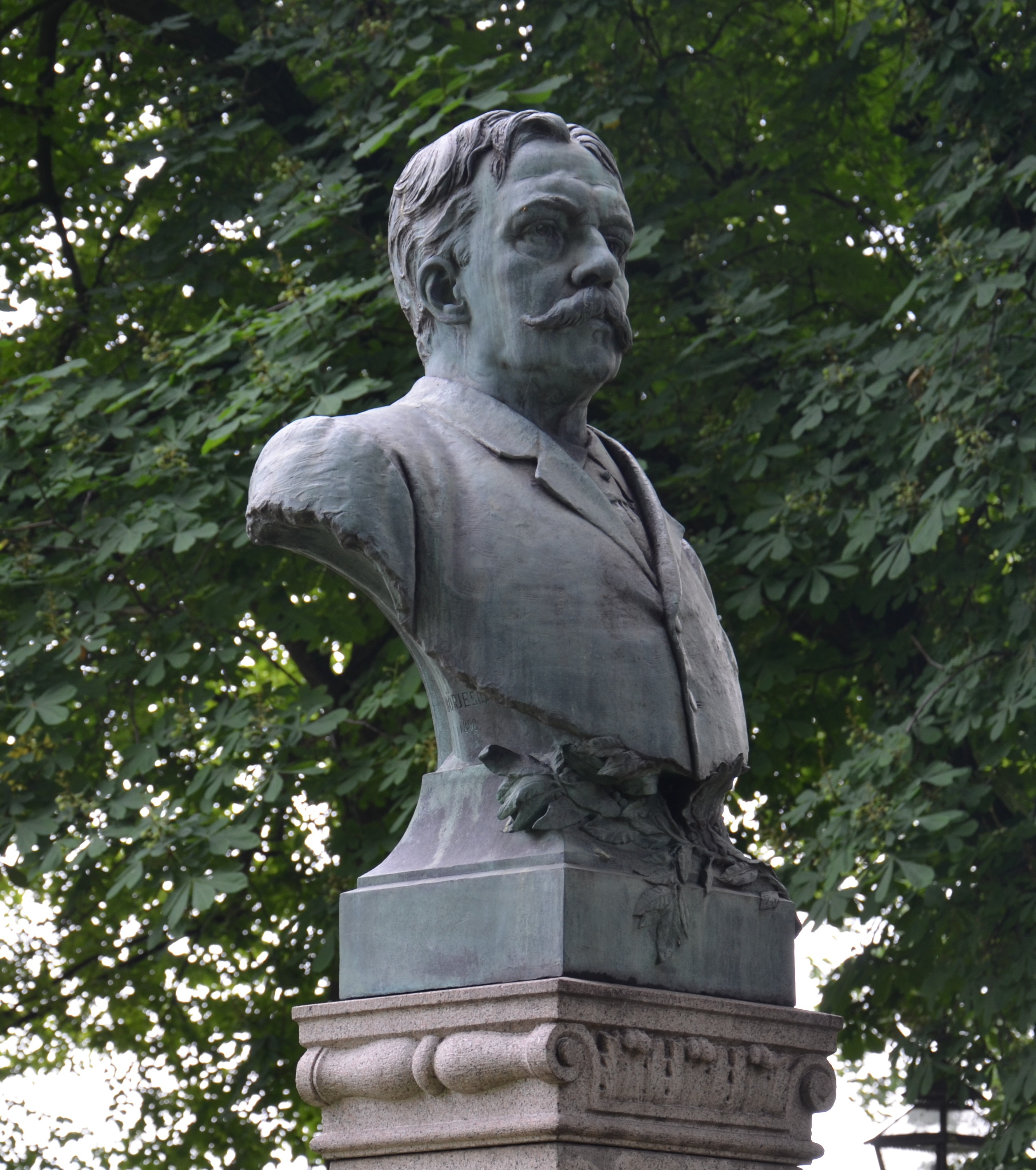 John Börjesons byst av Viktor Rydberg, brons, 1898, Rådhusparken i Jönköping